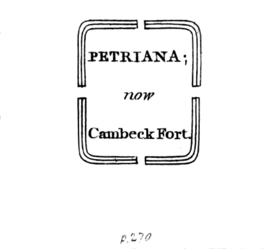 "PETRIANA; now Cambeck Fort". Engraving from page 270 of The History of the Roman Wall by William Hutton. Printed by John Nichols and Son, London, 1802.